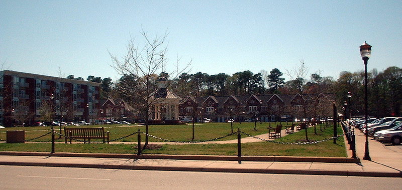 Byron Square, Port Warwick, Newport News, VA, April 4th., 2006